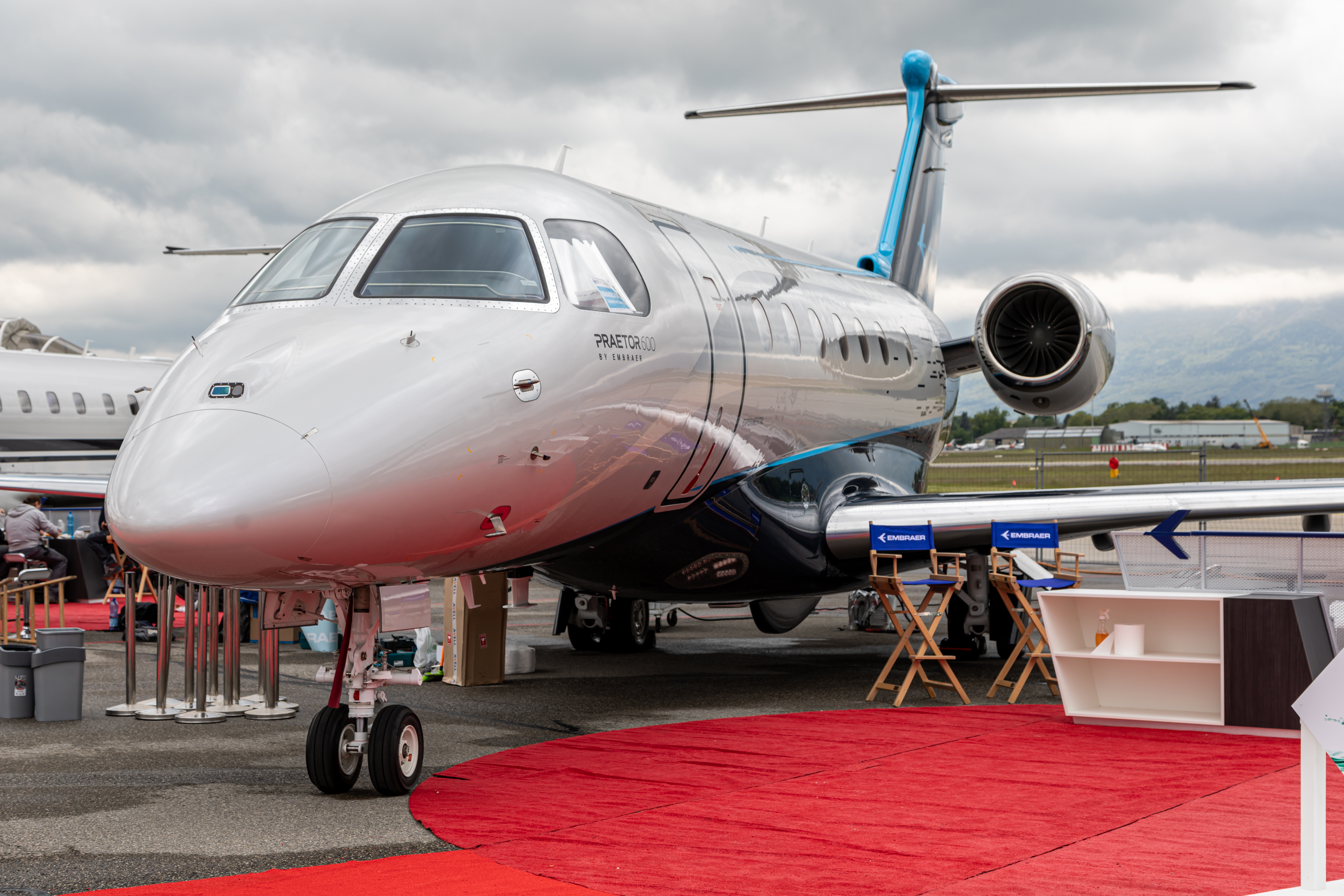 EBACE 2019, Palexpo, Switzerland